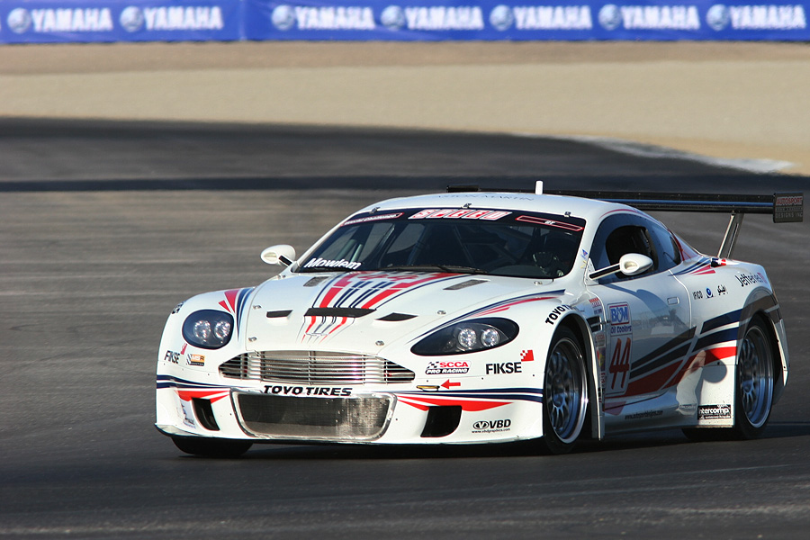 An Aston Martin DBRS9 used in the Speed GT Challenge